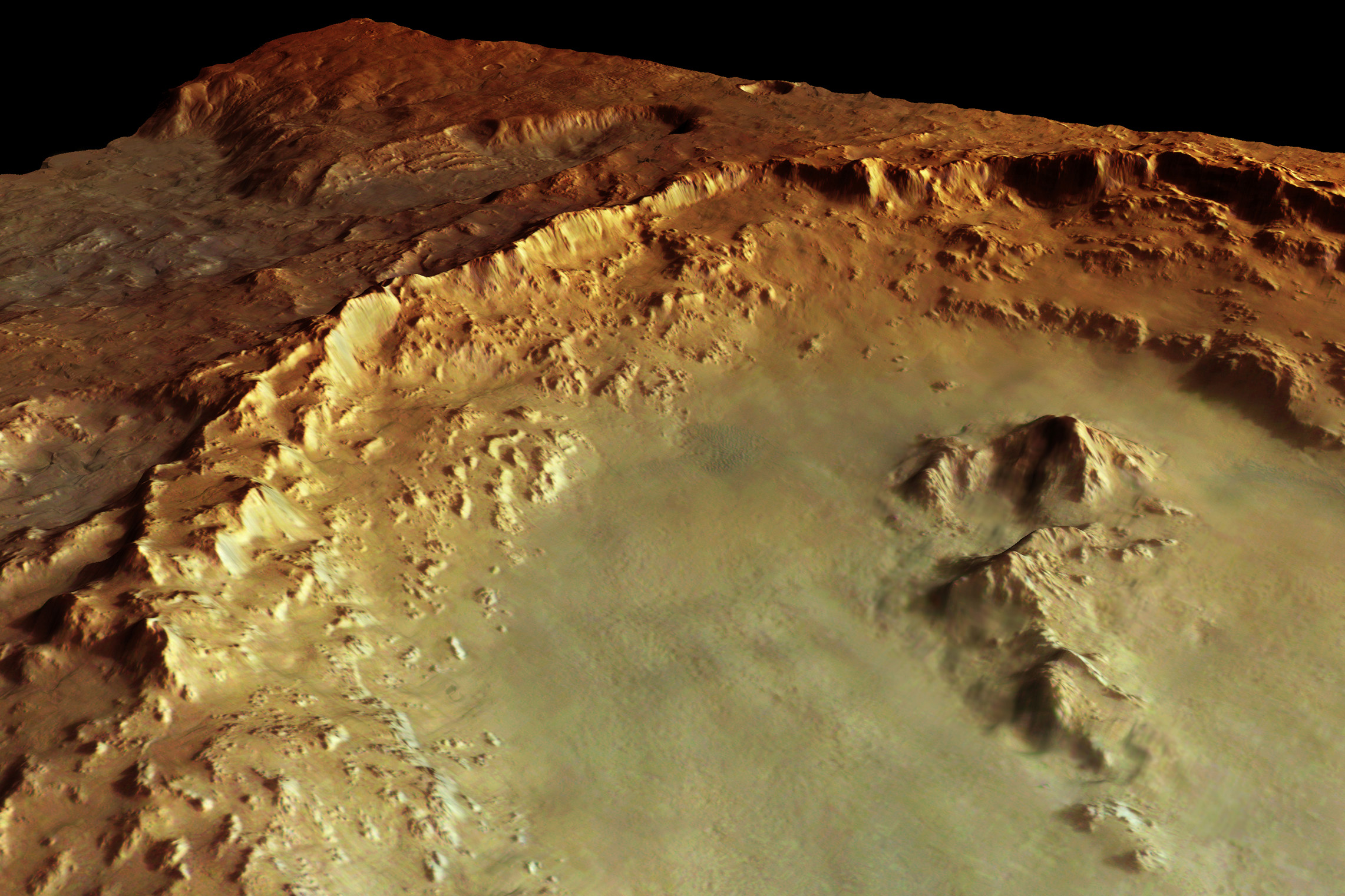 This perspective view, taken by the High Resolution Stereo Camera (HRSC) on board ESA’s Mars Express spacecraft, shows the rim of Crater Hale. The image is centred at latitude 36° South and longitude 324° East. The image was taken with a ground resolution of about 40 metres per pixel during Mars Express orbit 533 in June 2004. It shows a closer view of Crater Hale, with its terraced walls (left) and central peak (right) visible in the image.